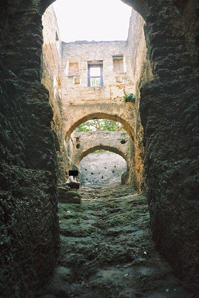 Mombasa - Fort Jesus - Passage of the arches